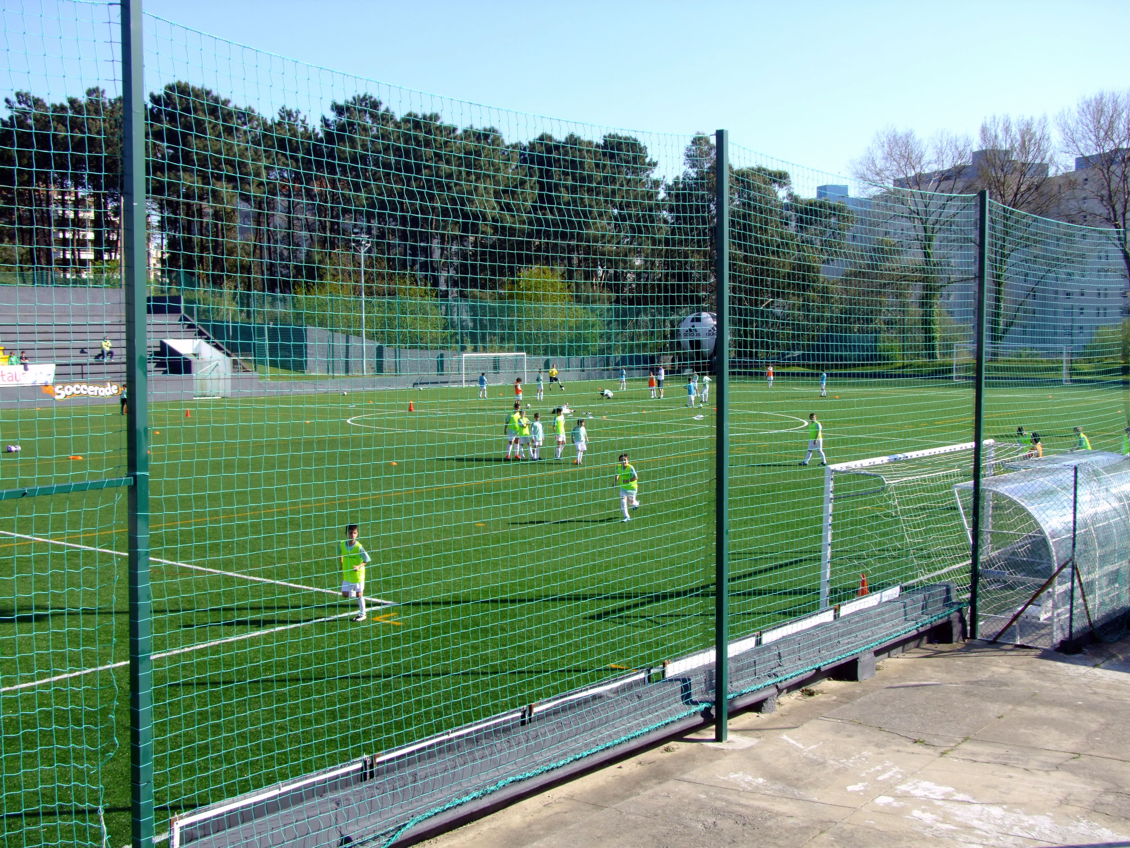 Campo de futebol do Futebol Clube da Foz. Nevogilde/Aldoar, Porto